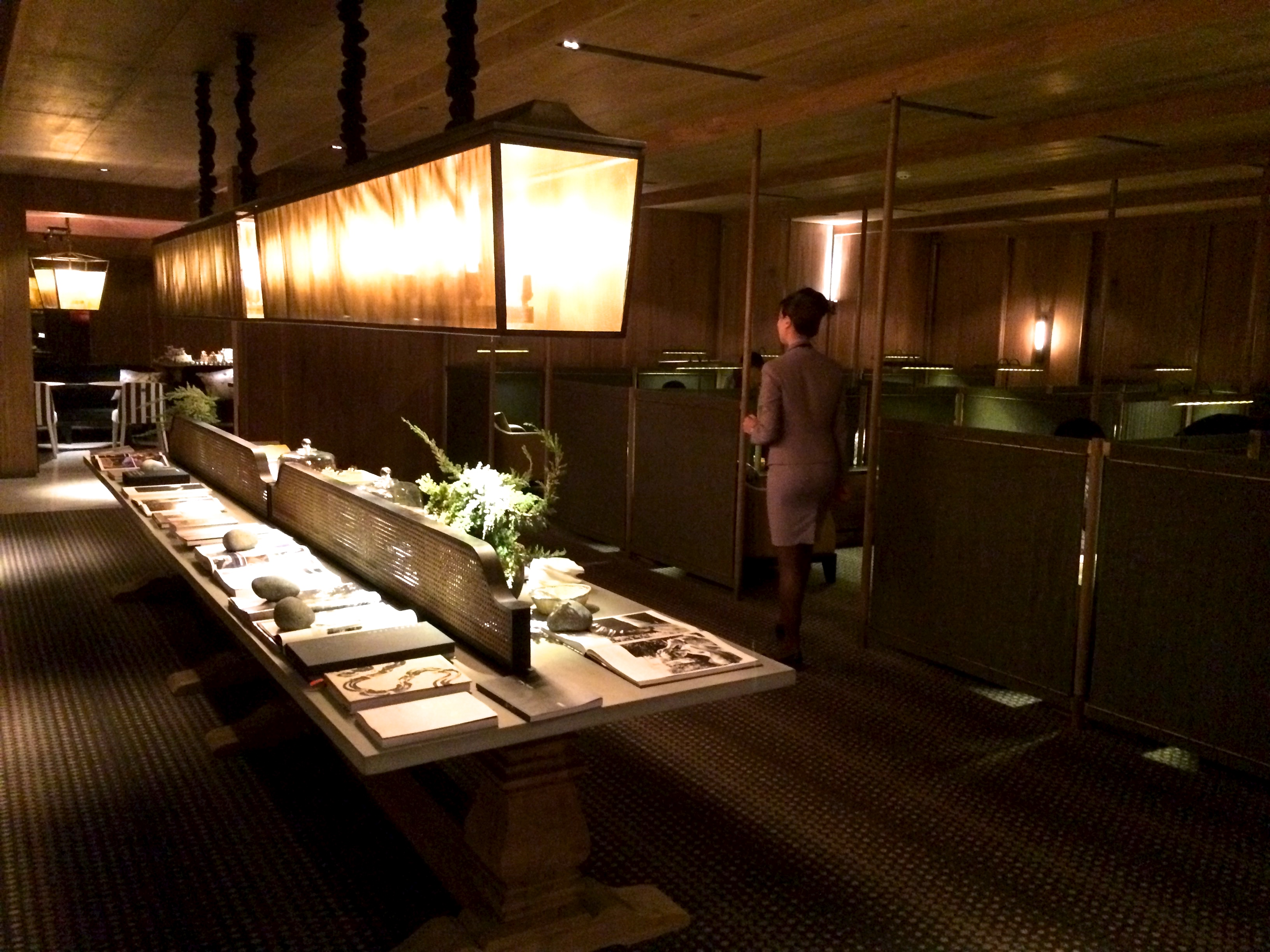 China Airlines TPE T1 Lounge First Class Section